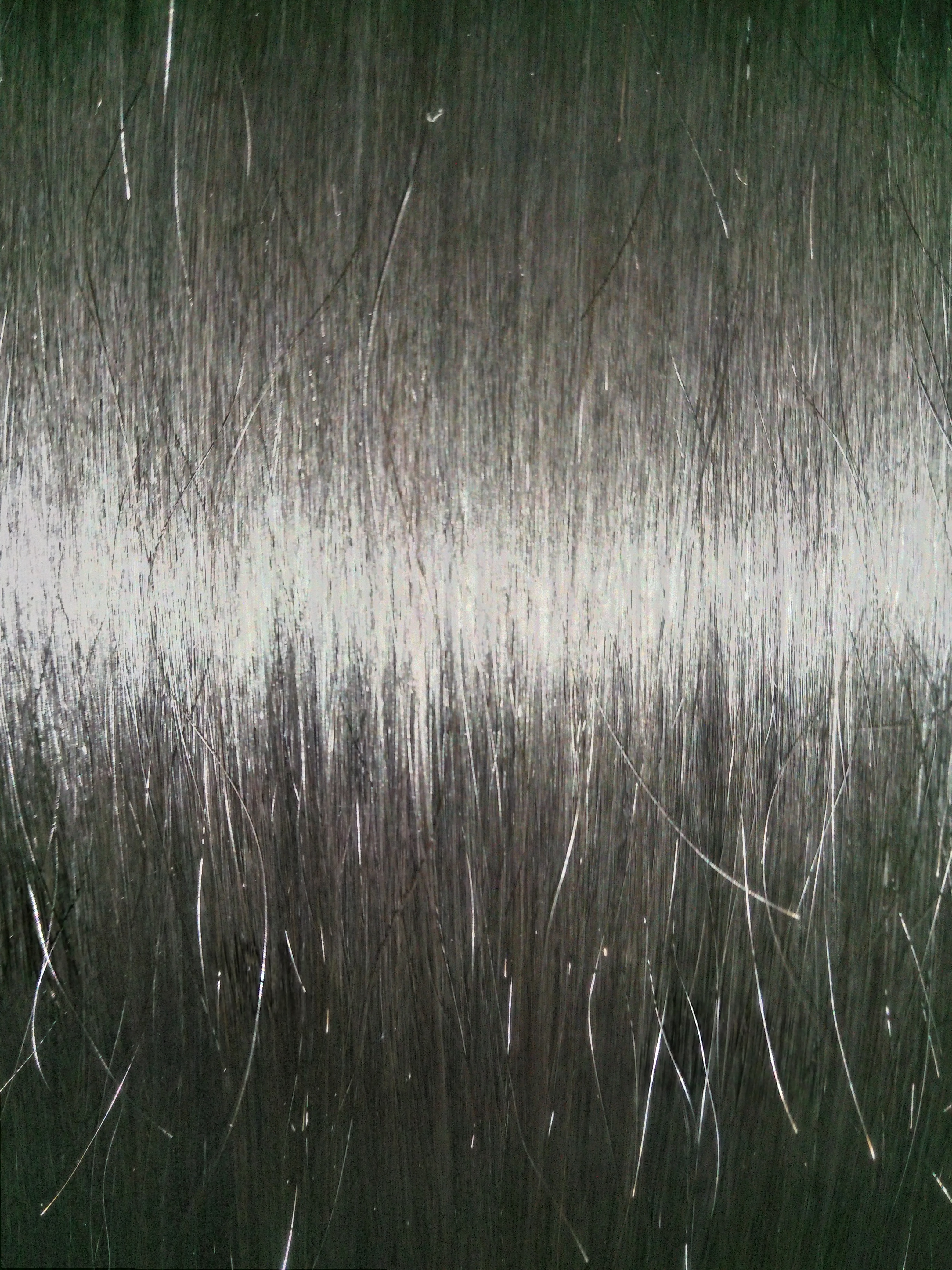 Black hair detail